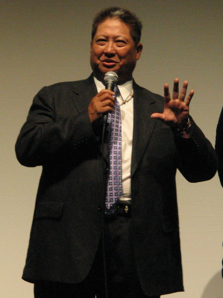 Sammo Hung at the Toronto International Film Festival in 2005.